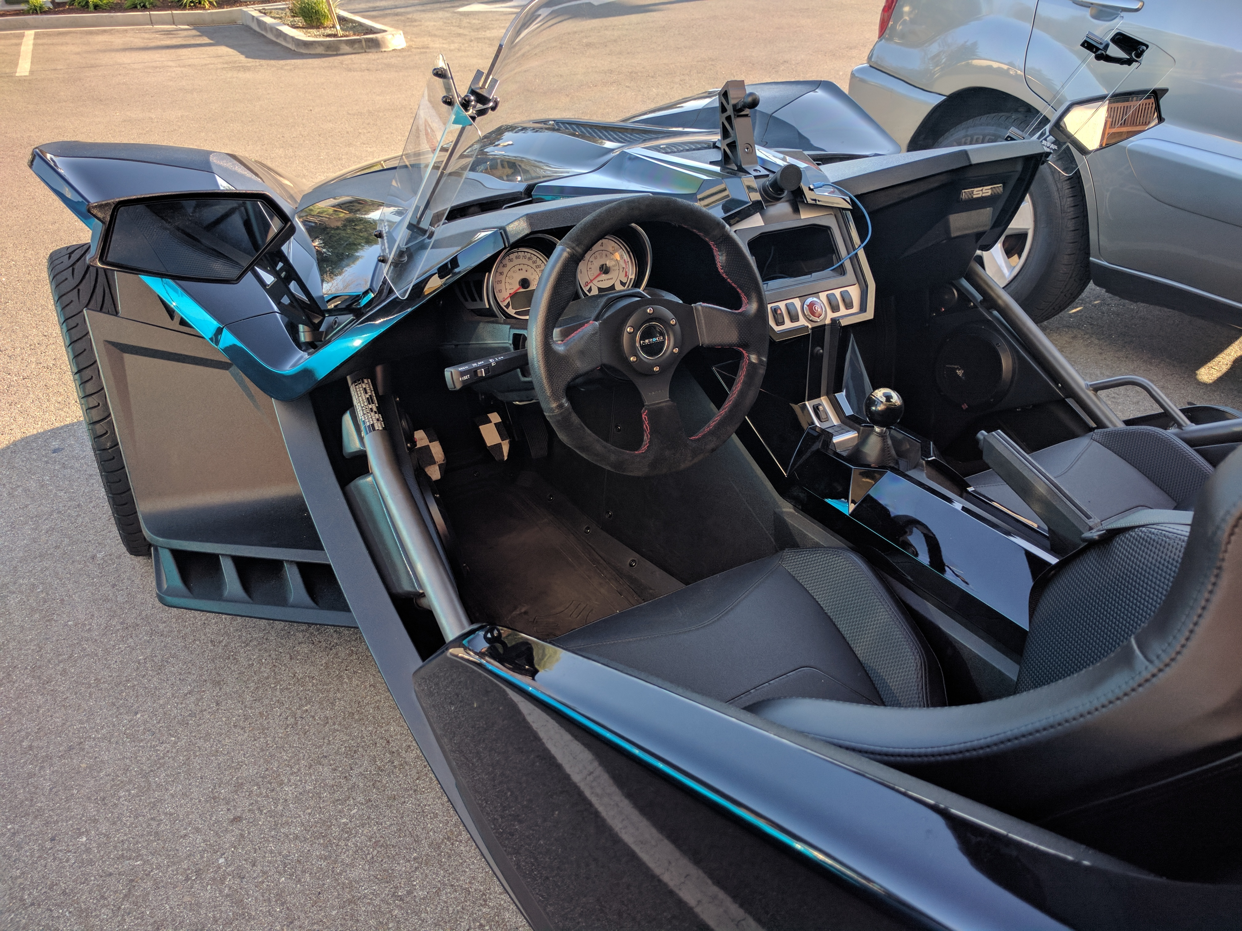 The interior of a black Polaris Slingshot three-wheeled vehicle.